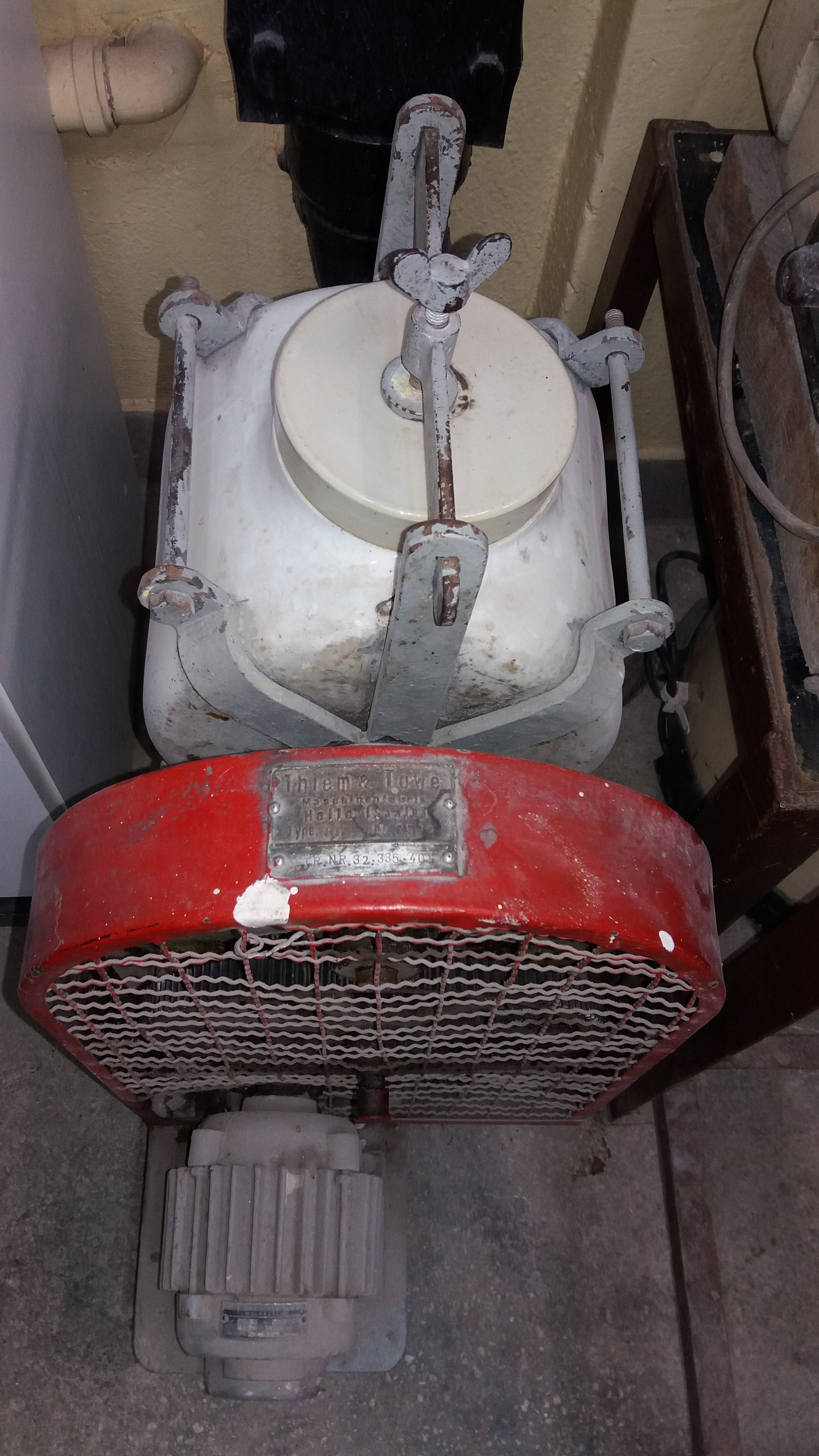 Ceramic ball mill before 1945 Thiem and Towe Halle. Property of Faculty of Chemistry, Gdańsk University of Technology.